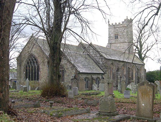 St Andrew's parish church, Whitchurch, Devon, seen from the northeast